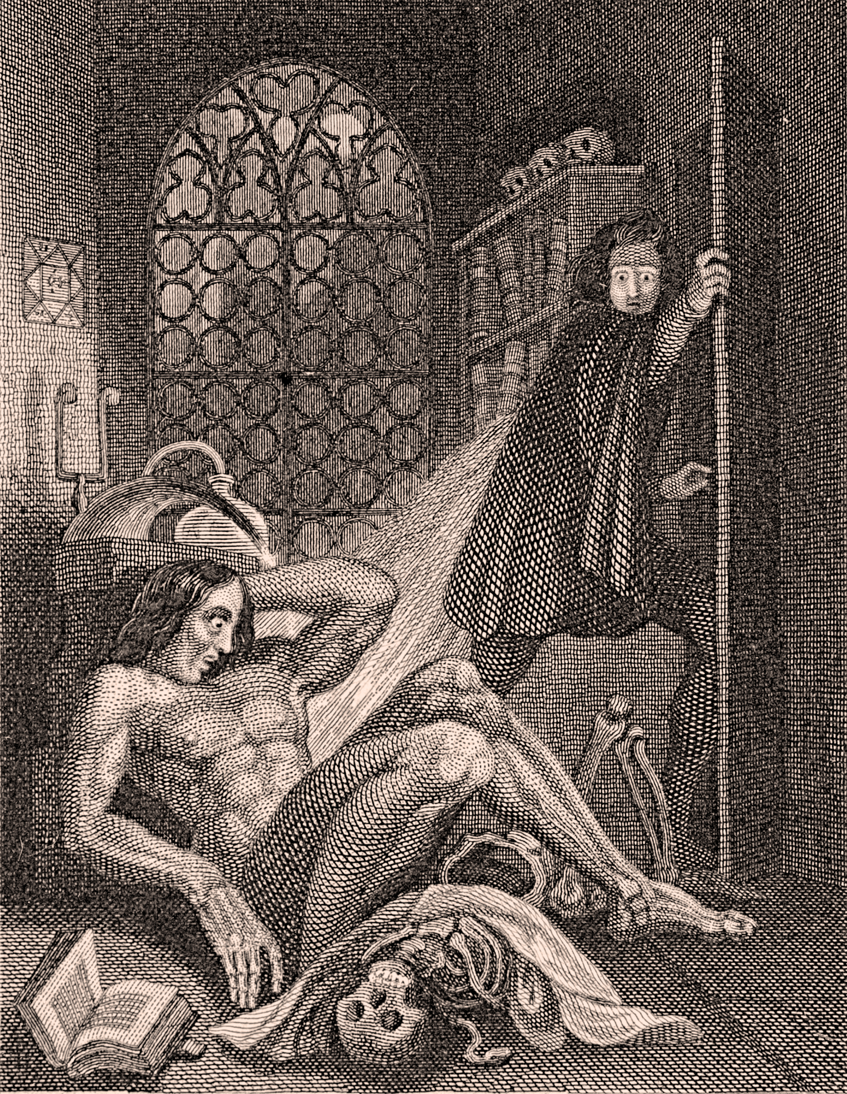 Victor Frankenstein becoming disgusted at his creation. Illustration from the frontispiece of the 1831 edition. Steel engraving (993 x 71mm) to the revised edition of Frankenstein by Mary Shelley, published by Colburn and Bentley, London 1831. The novel was first published in 1818.